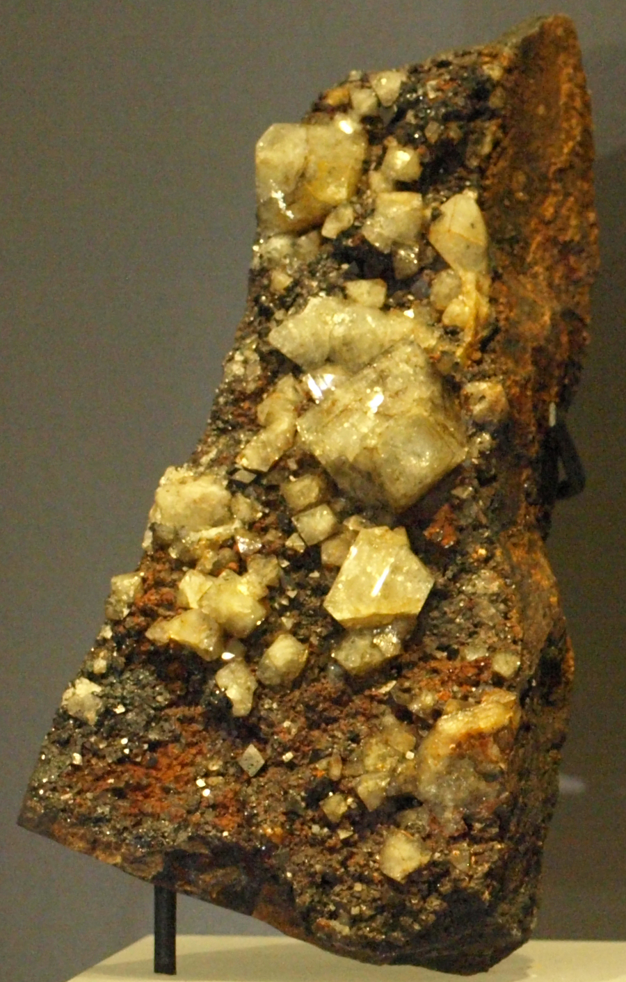 An example of the mineral Wardite on display in the Vale Inco Limited Gallery of Minerals at the Royal Ontario Museum.